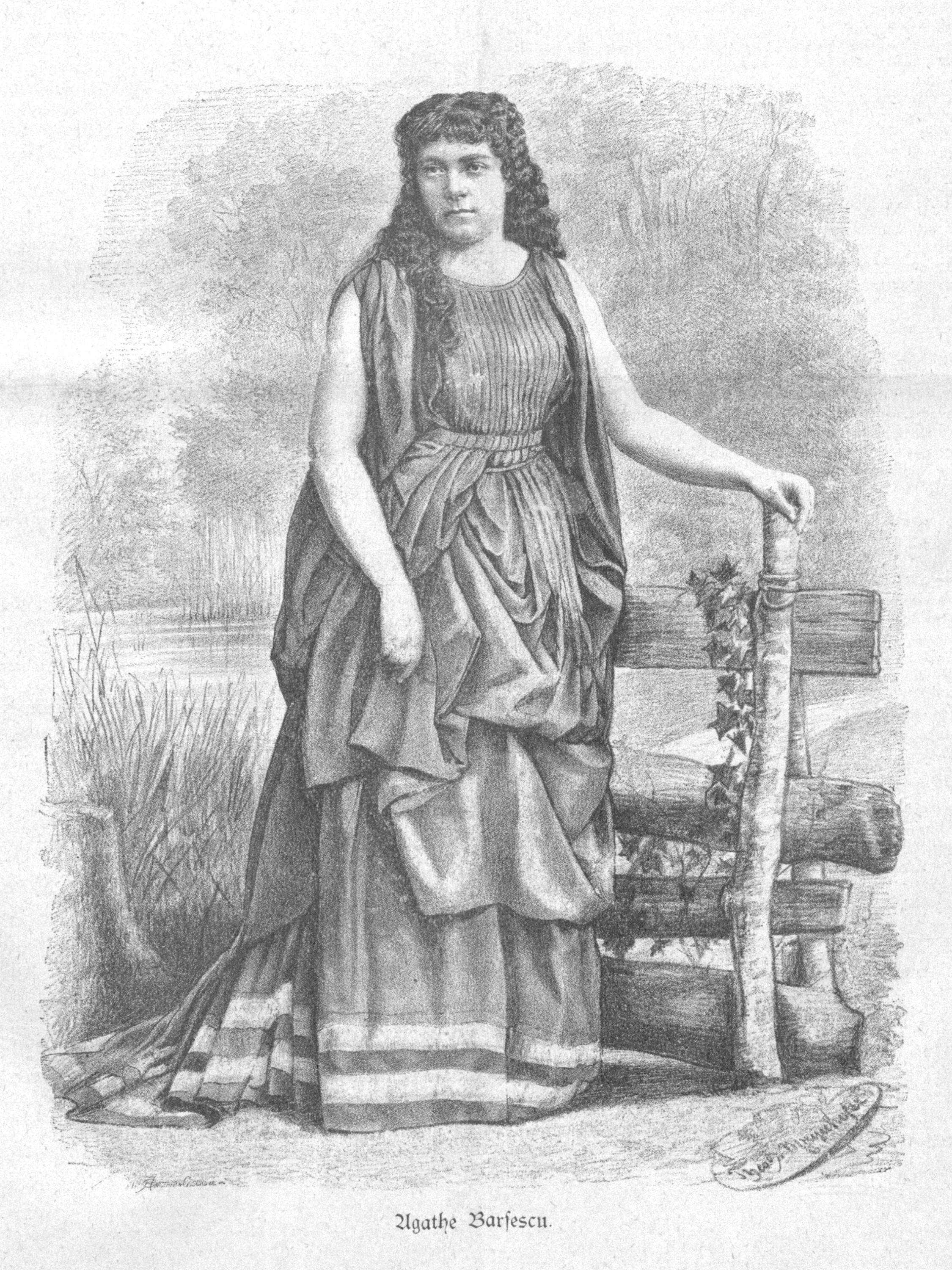 Portrait of Agatha Bârsescu (1861-1939), Romanian actress.